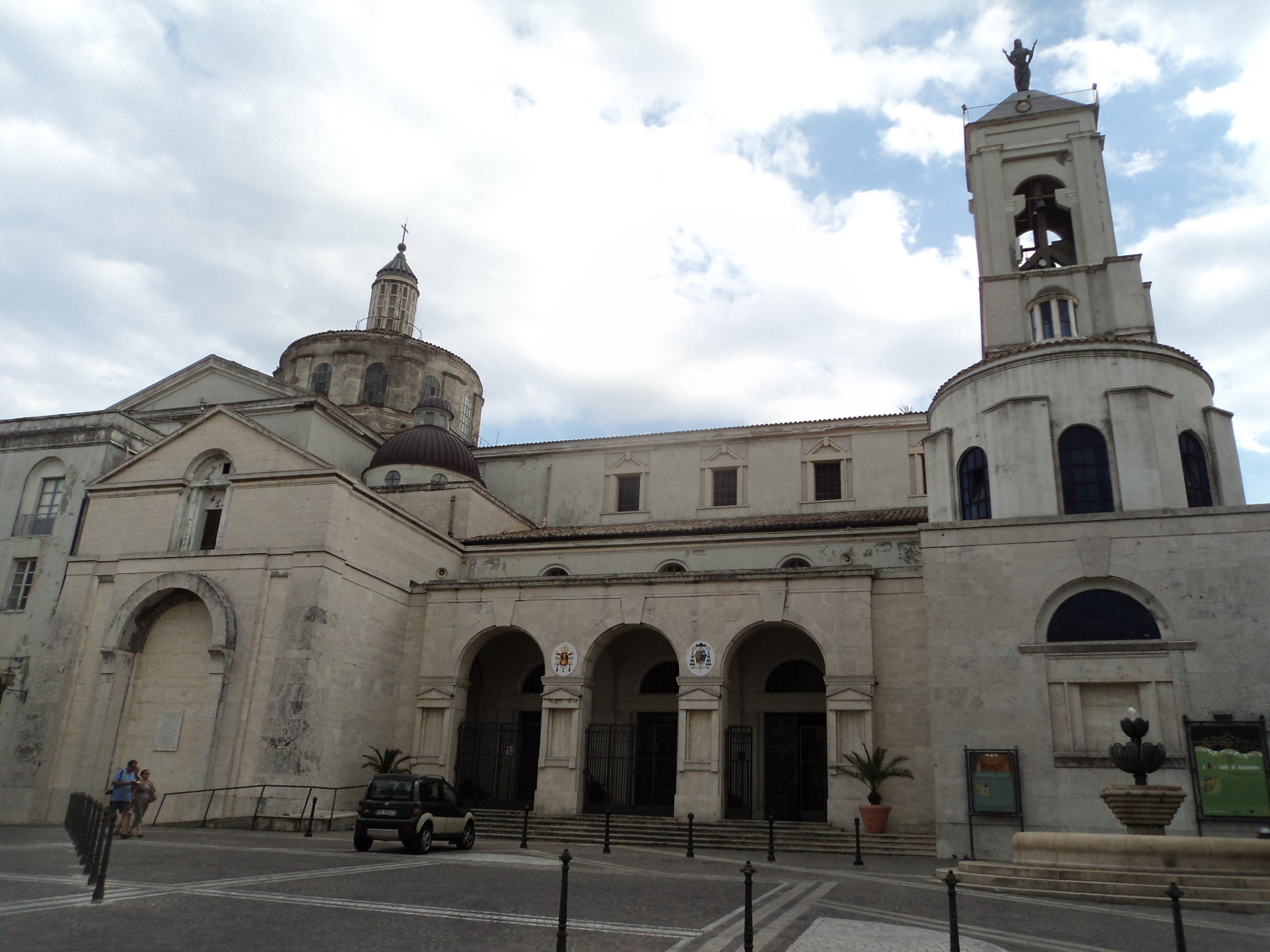 Cathedral (Catanzaro)